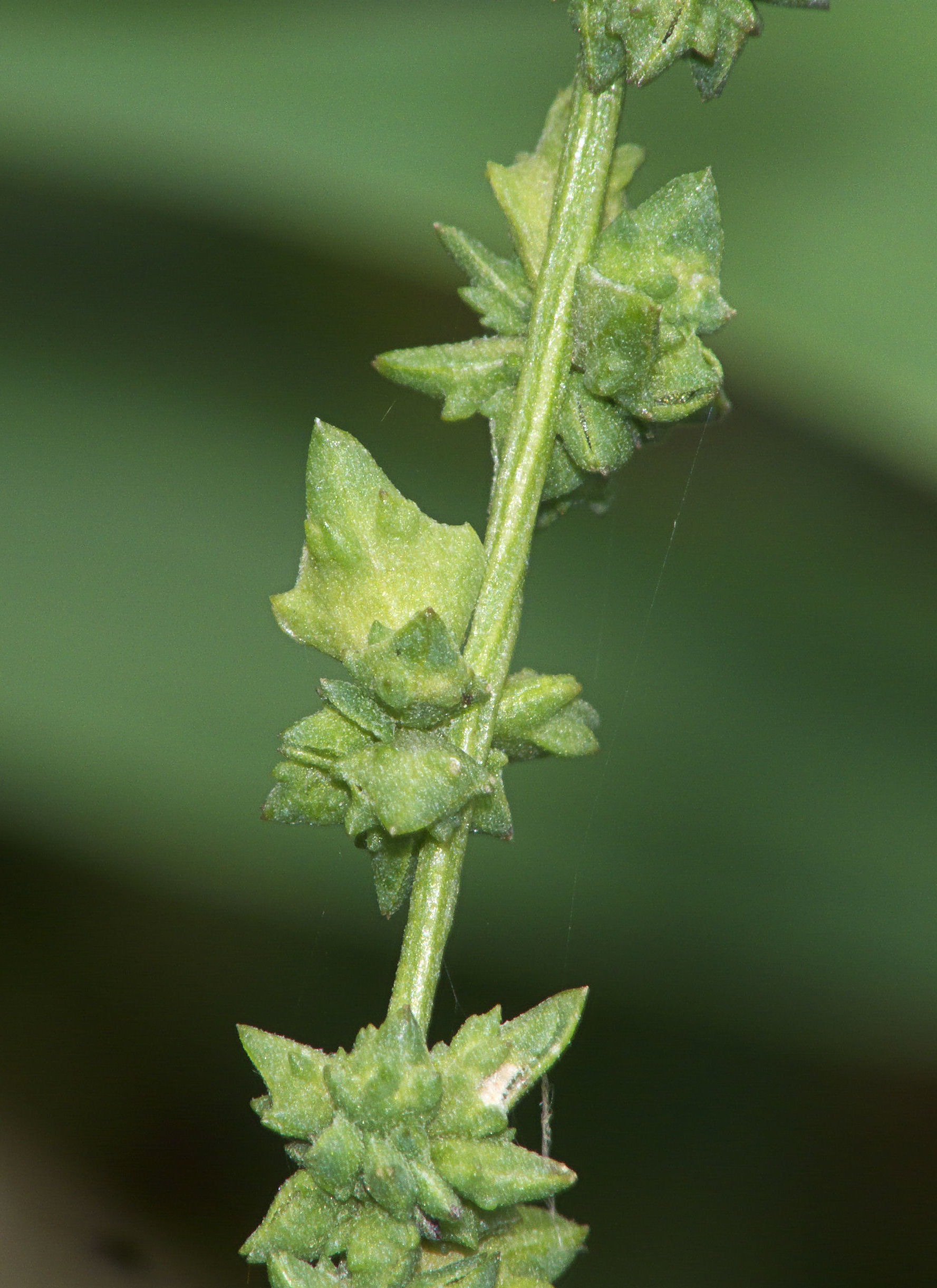 Atriplex patula inflorescence